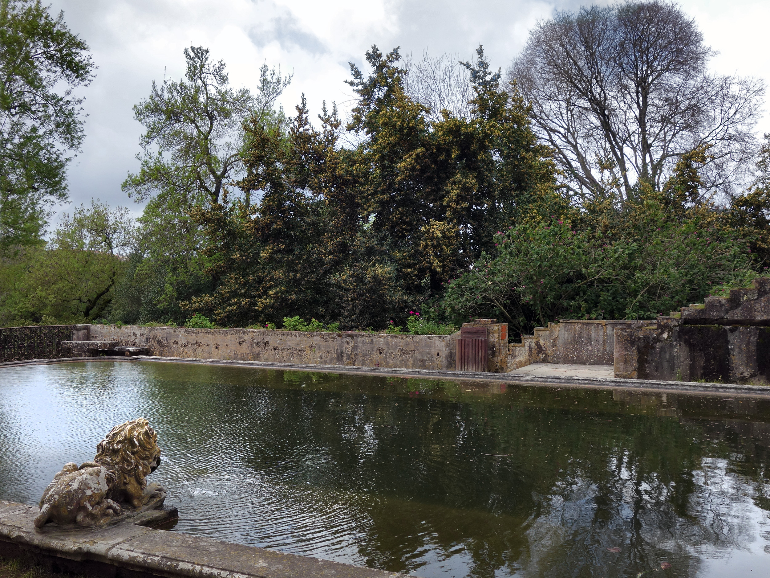 Parque Botânico do Monteiro-Mor, historical garden, lion pool